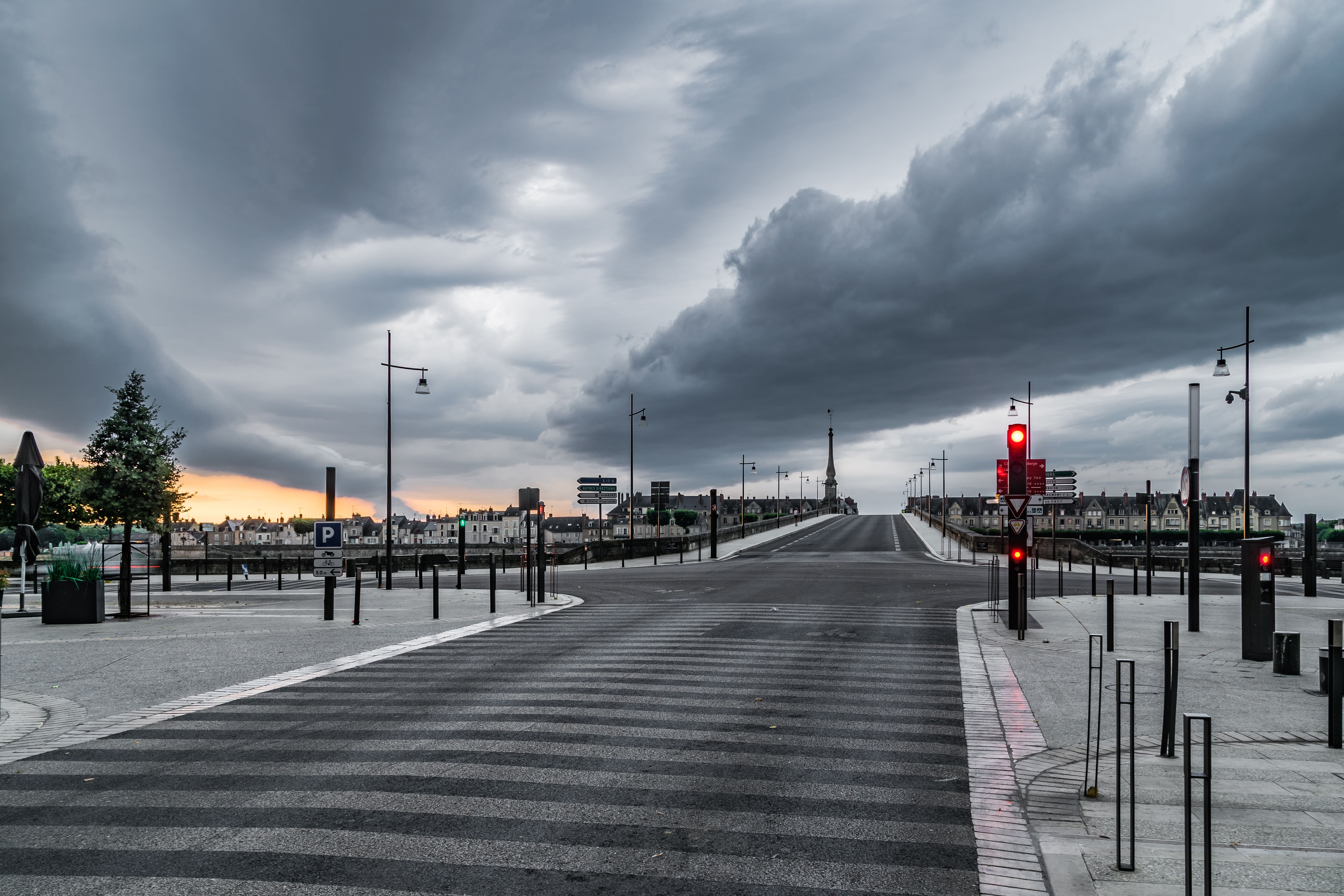 View towards bridge of Jacques-Gabriel from Rue Denis Papin in Blois, Loir-et-Cher, France